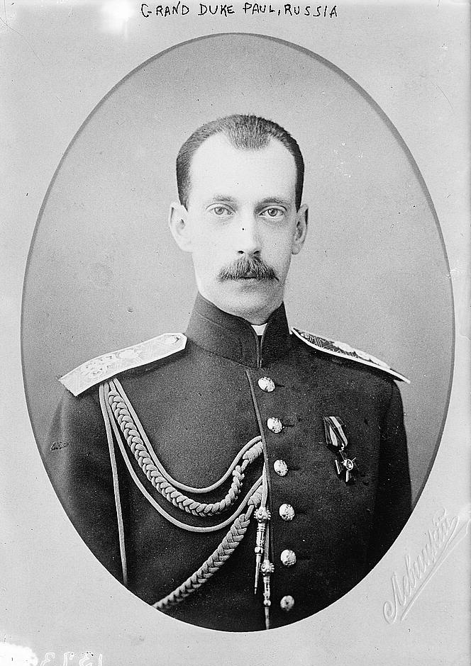 Grand Duke Paul of Russia